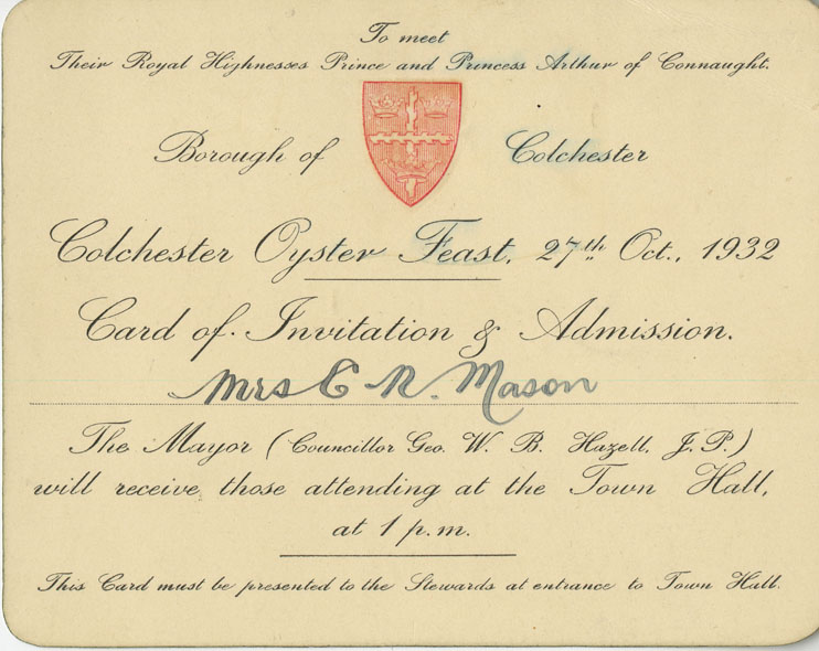 Oyster Feast Invitation addressed just to Bertha Mason showing that she was accepted as part of the business community